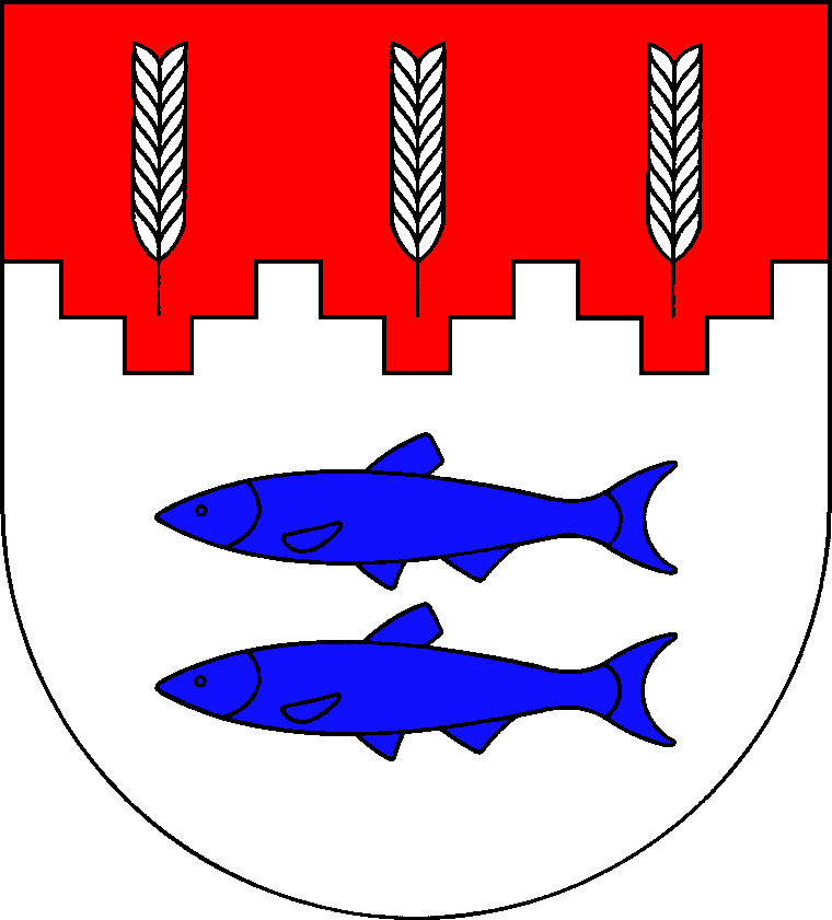 Coat of arms of the municipality Schülldorf in Schleswig-Holstein, Germany.